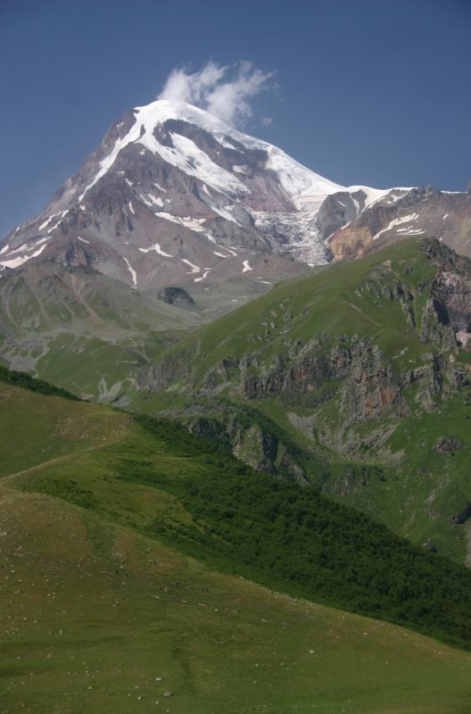 Mt. Kazbegi in The Greater Caucasus mountain range on the Georgian/Russian border